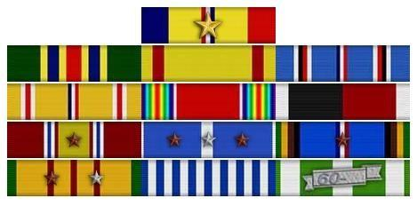 Hanson's final ribbon stack /w stars